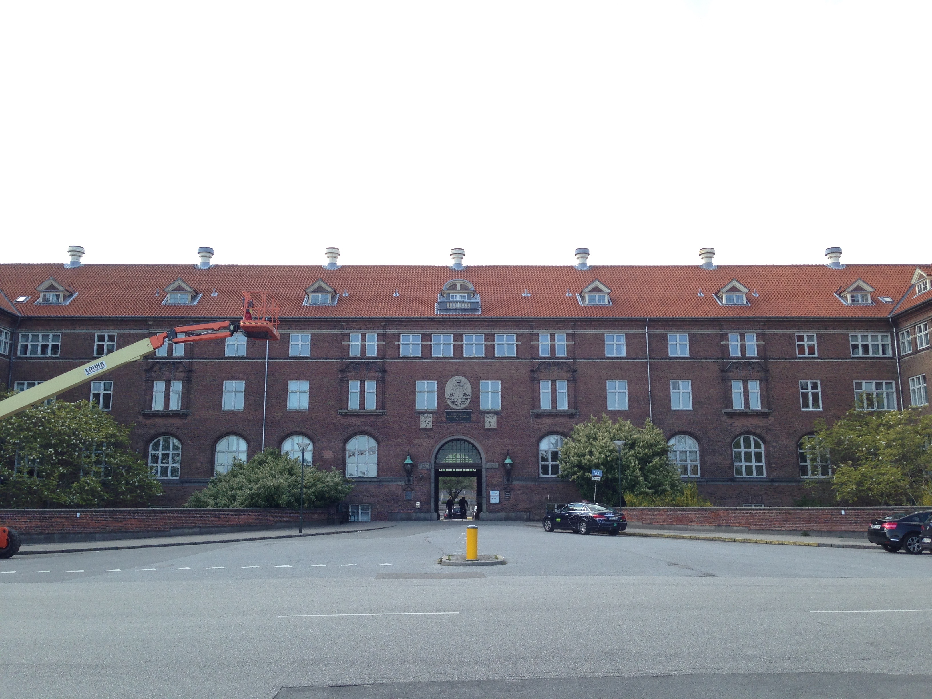 WikiWednesday: Wikipedians tour Bispebjerg Hospital grounds, 6 May 2015